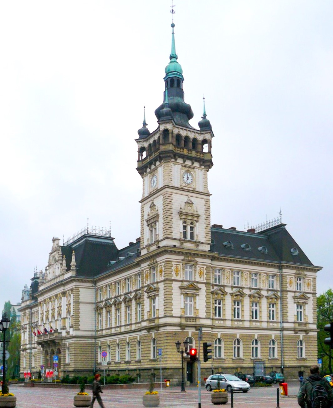 Town Hall in Bielsko-Biała. View from Ratuszowa street.